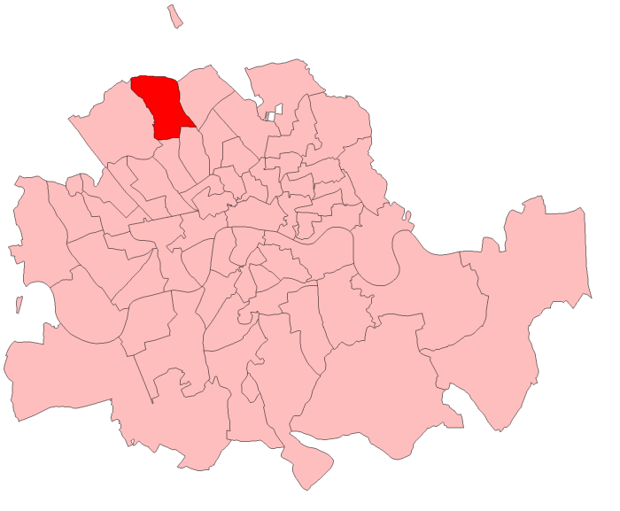 A map of St Pancras North constituency within the Metropolitan Board of Works area, as it existed from 1885 to 1918.